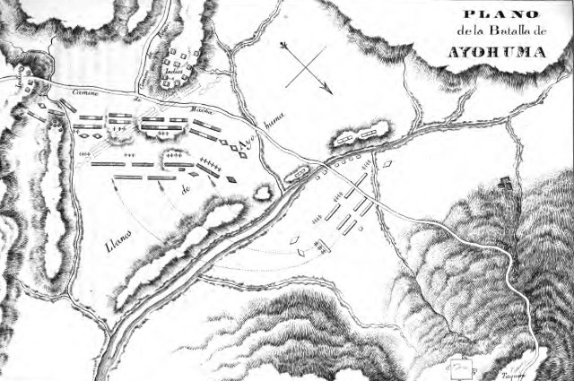 Crude sketch of the Battle of Ayohuma (1813).